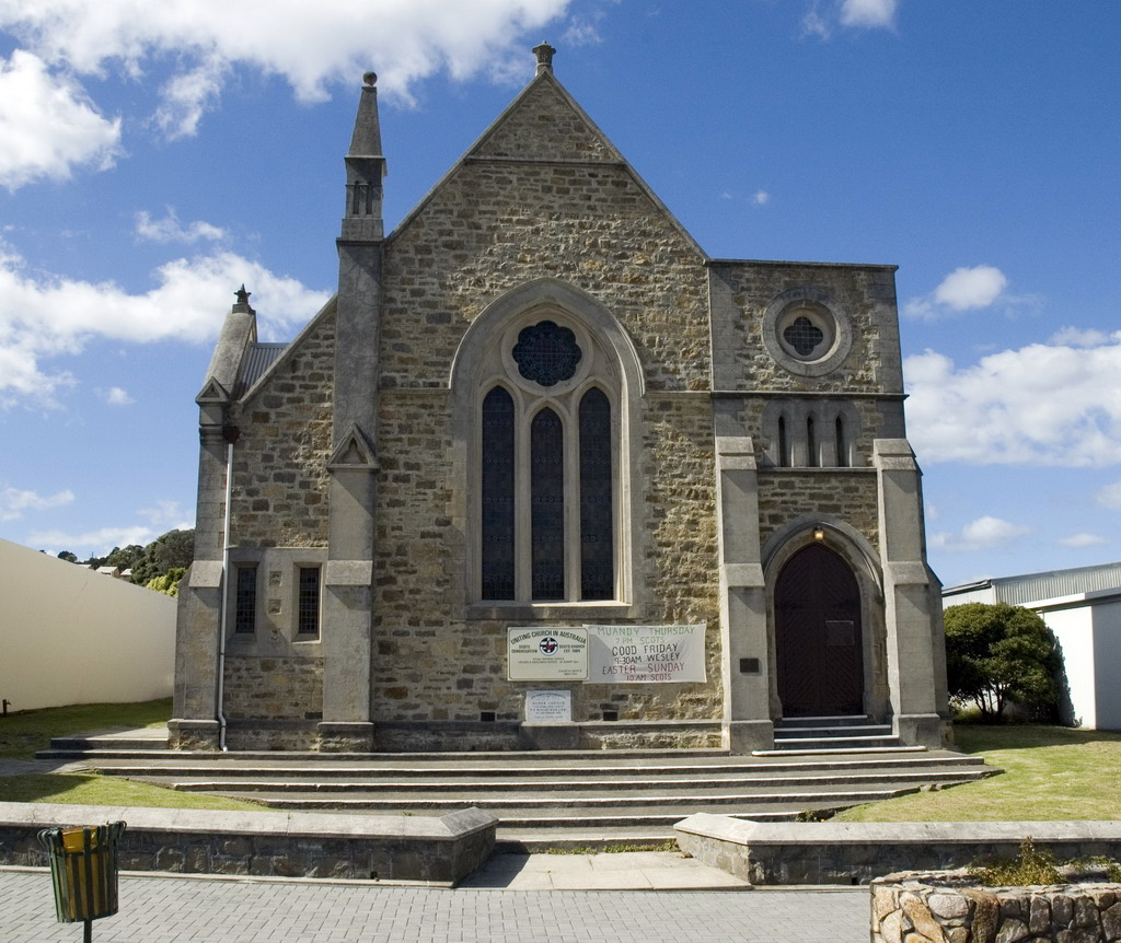 Scots Uniting Church - Albany, Western Australia.